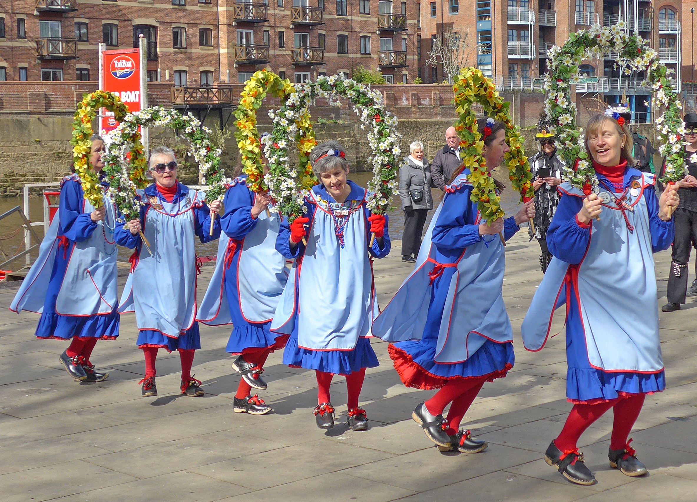 Joint Morris Organisation Day of Dance